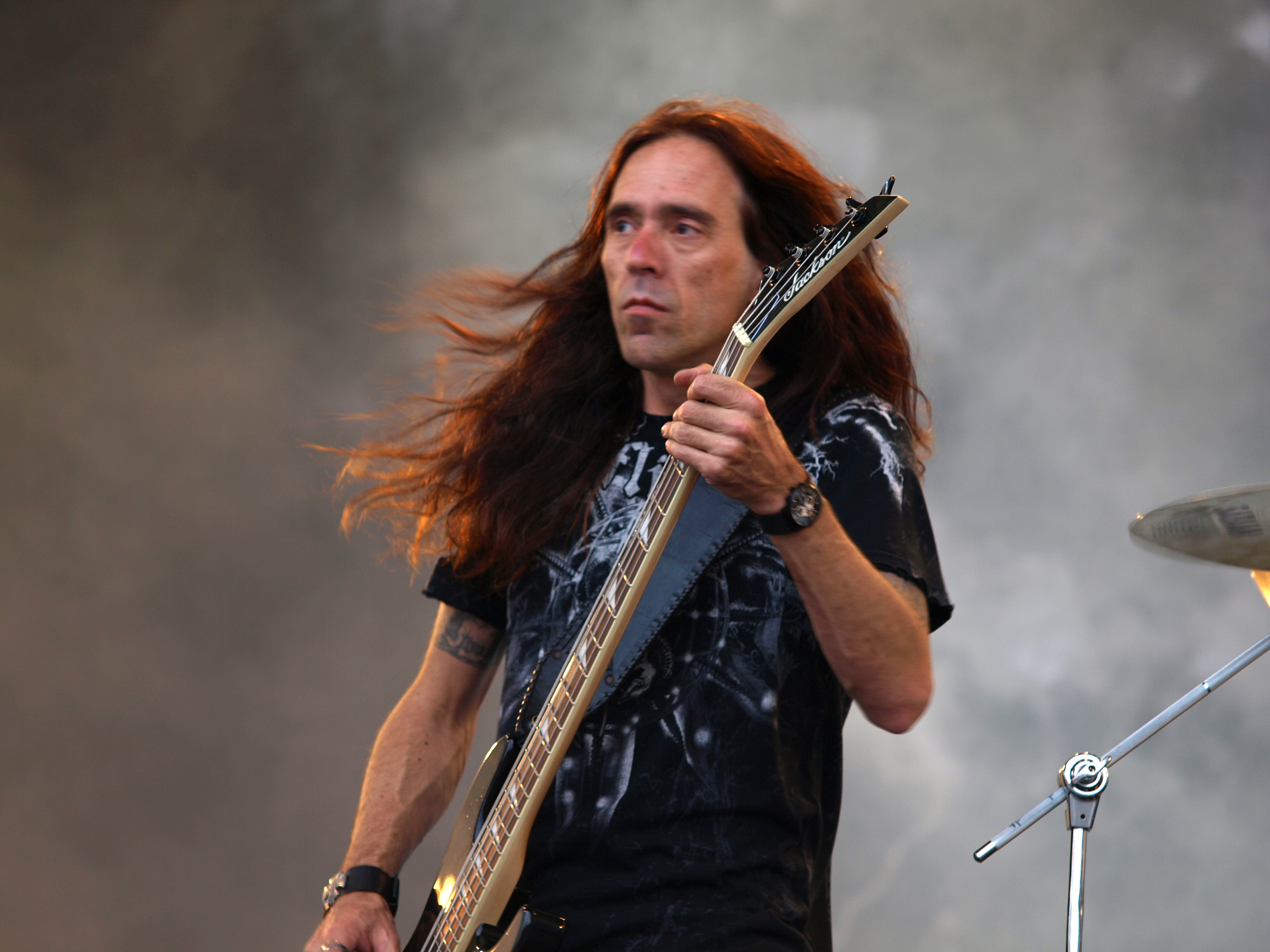 US-American thrash metal band Testament live at Tuska Open Air 2013